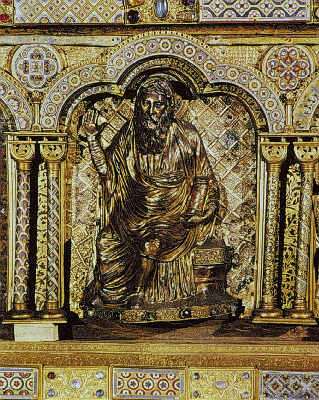 Sculpture of the prophet Nahum by Nicholas of Verdun on the shrine of the Three Magi in Cologne Cathedral